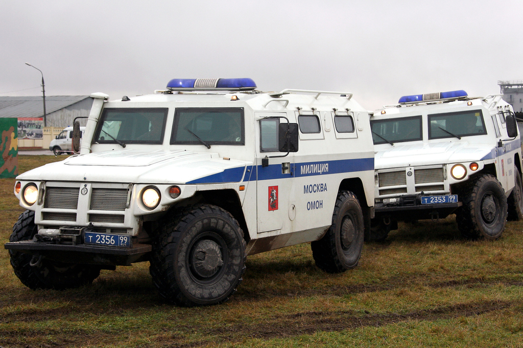 Moscow OMON GAZ-233034 SPM-1 vehicle during Interpolitex-2009 exhibition